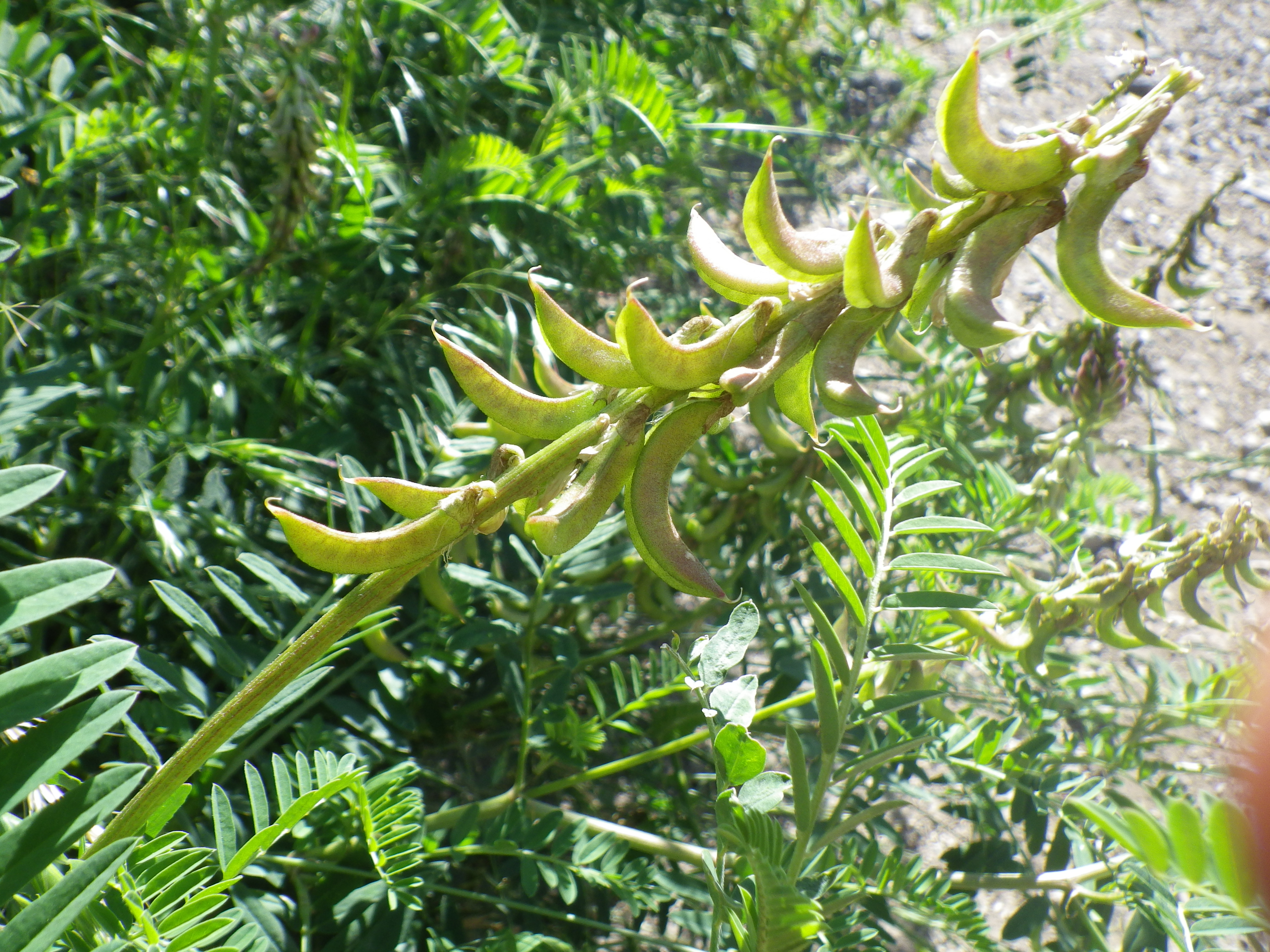 Astragalus falcatus has apparently been common along the lower M trail and adjacent pastures for decades but has never colonized the adjacent shrub-steppe high in native plant cover. The general falcate shape of the fruit renders the specific epithet of this species.